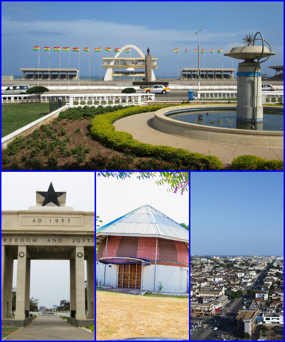 View of the Black Star Square in Accra.